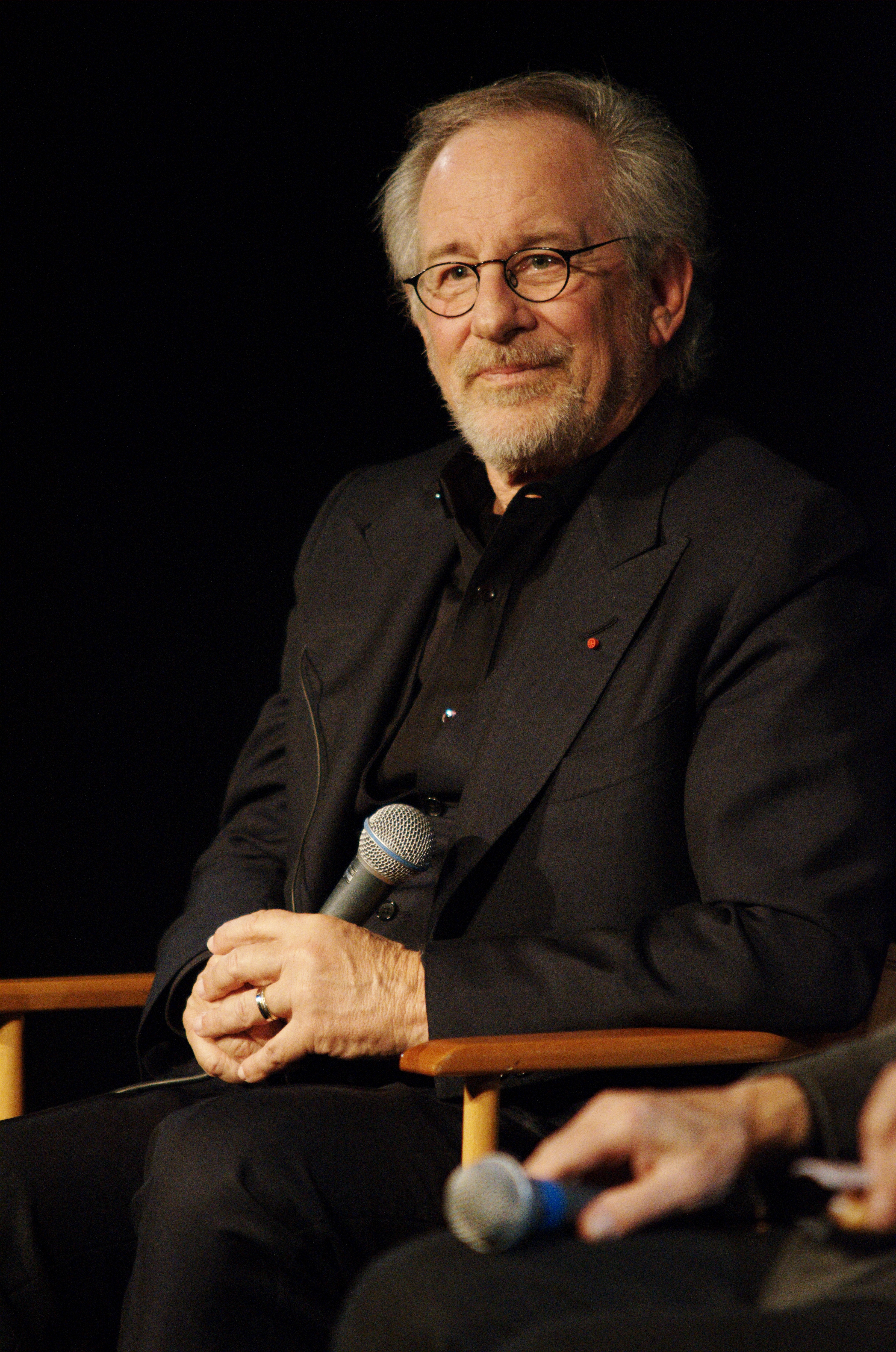 Steven Spielberg during his masterclass at "La Cinémathèque Française" on January 9th, 2012 in Paris